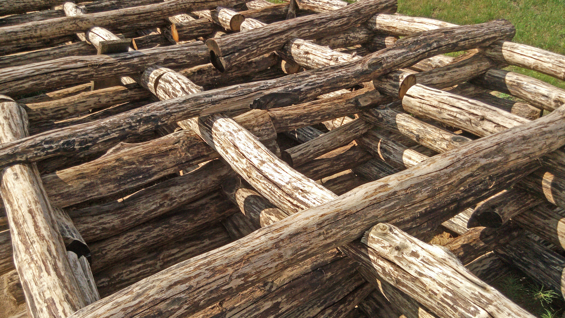 The construction of a defensive box-shaped wooden and earth shaft surrounding the settlement in Biskupin. Reconstruction performed in August 2018.